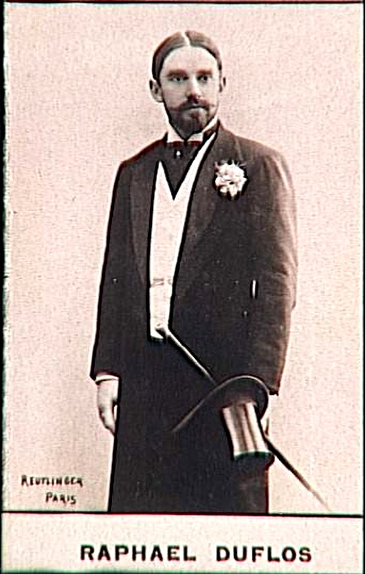 French actor Raphaël Duflos 1858-1946